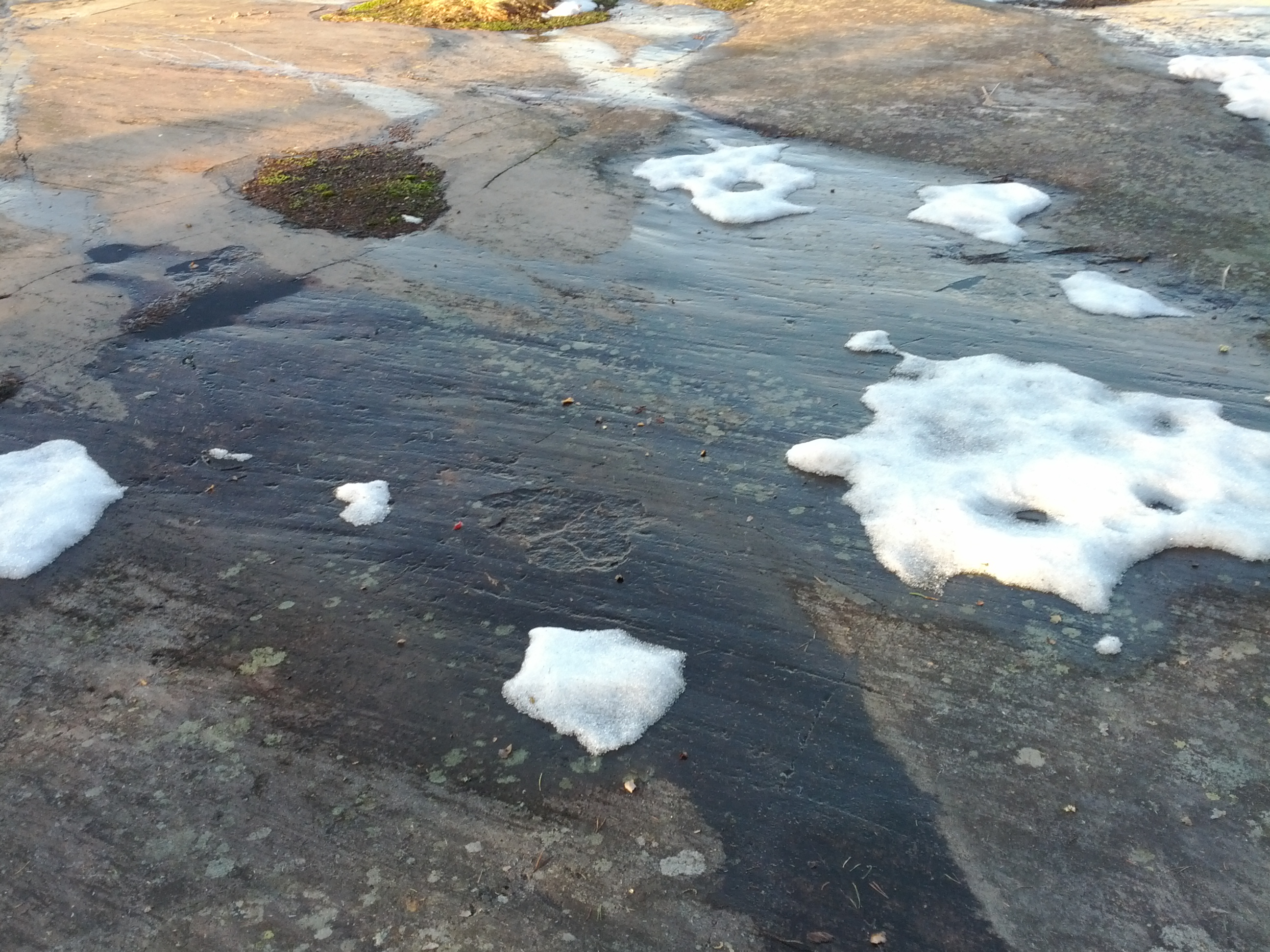 Glacial striation, left by ice-age glaciers, on a shore cliff in Otaniemi, Espoo, Finland. White is annual snow.